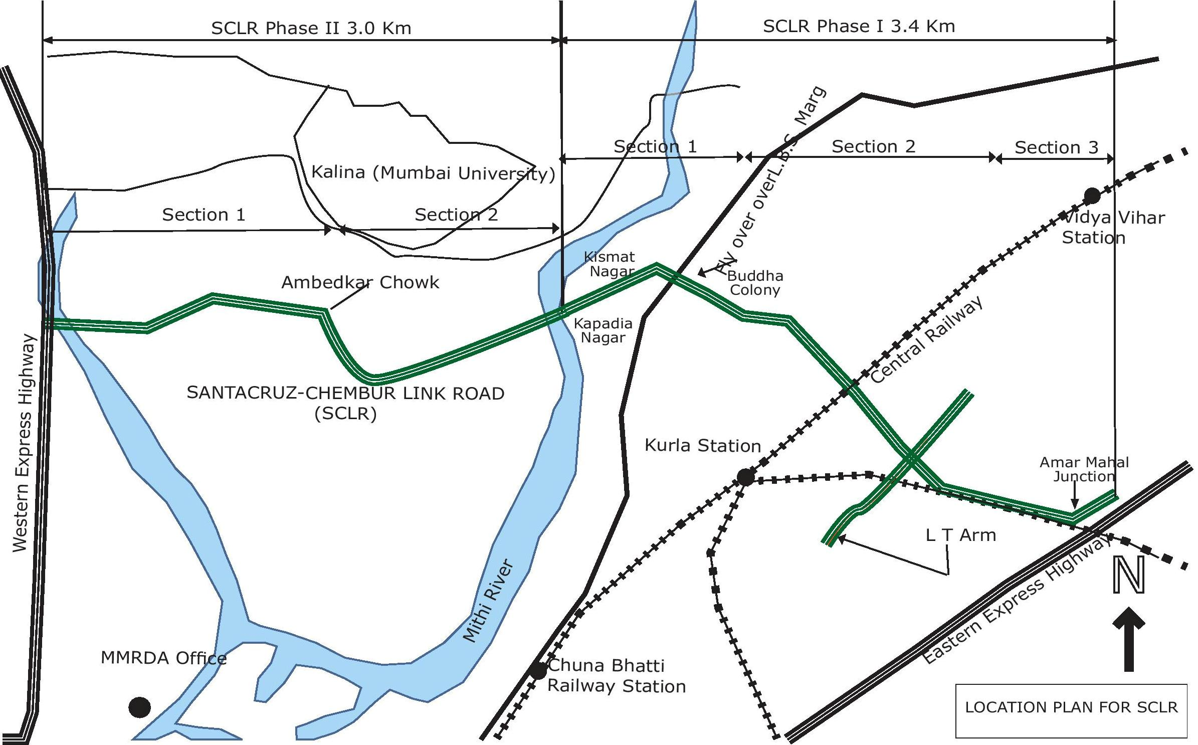 A location map of the Santa Cruz - Chembur Link Road (SCLR) in Mumbai.